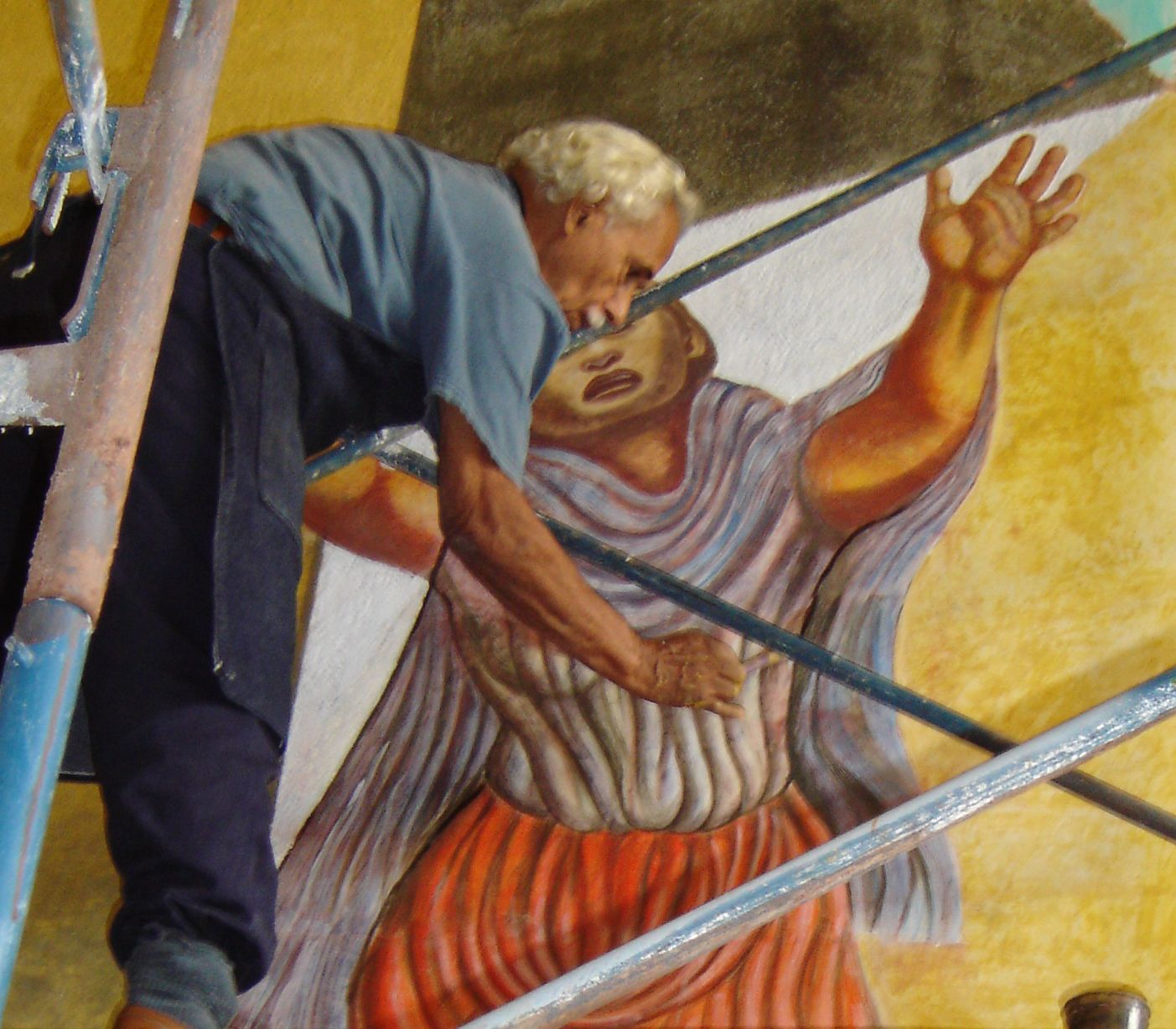 Melchor Peredo working on his mural at the Palacio Gobierno in Xalapa, Veracruz, Mexico.